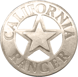 Badge of the California State Rangers, a defunct agency. Made with Photoshop.